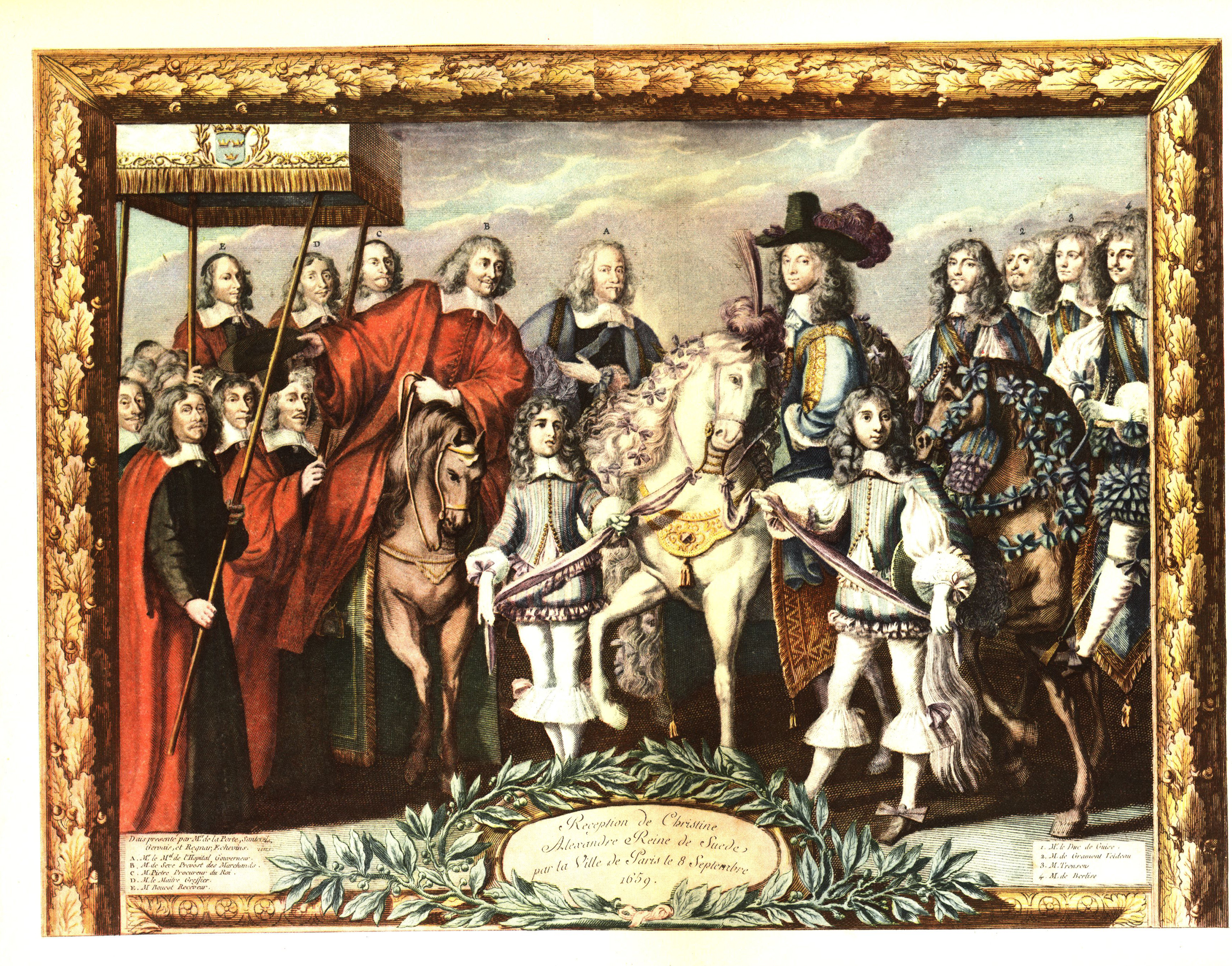 Reception of Queen Christina of Sweden in Paris 1659